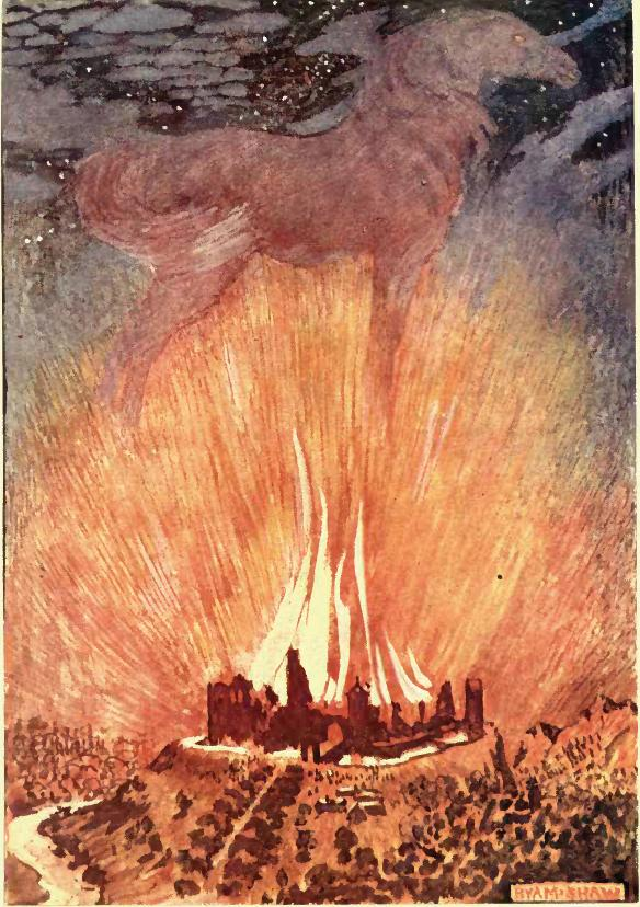 Byam Shaw's illustration for Poe's Metzengerstein in "Selected Tales of Mystery" (London : Sidgwick & Jackson, 1909) on the page to face p. 174 with caption "A cloud of smoke settled heavily over the battlements in the distinct collosal figure of - a horse"